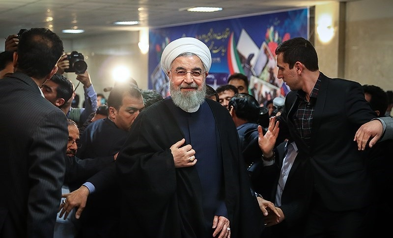 Hassan Rouhani registering for the 2017 Iranian presidential election candidacy